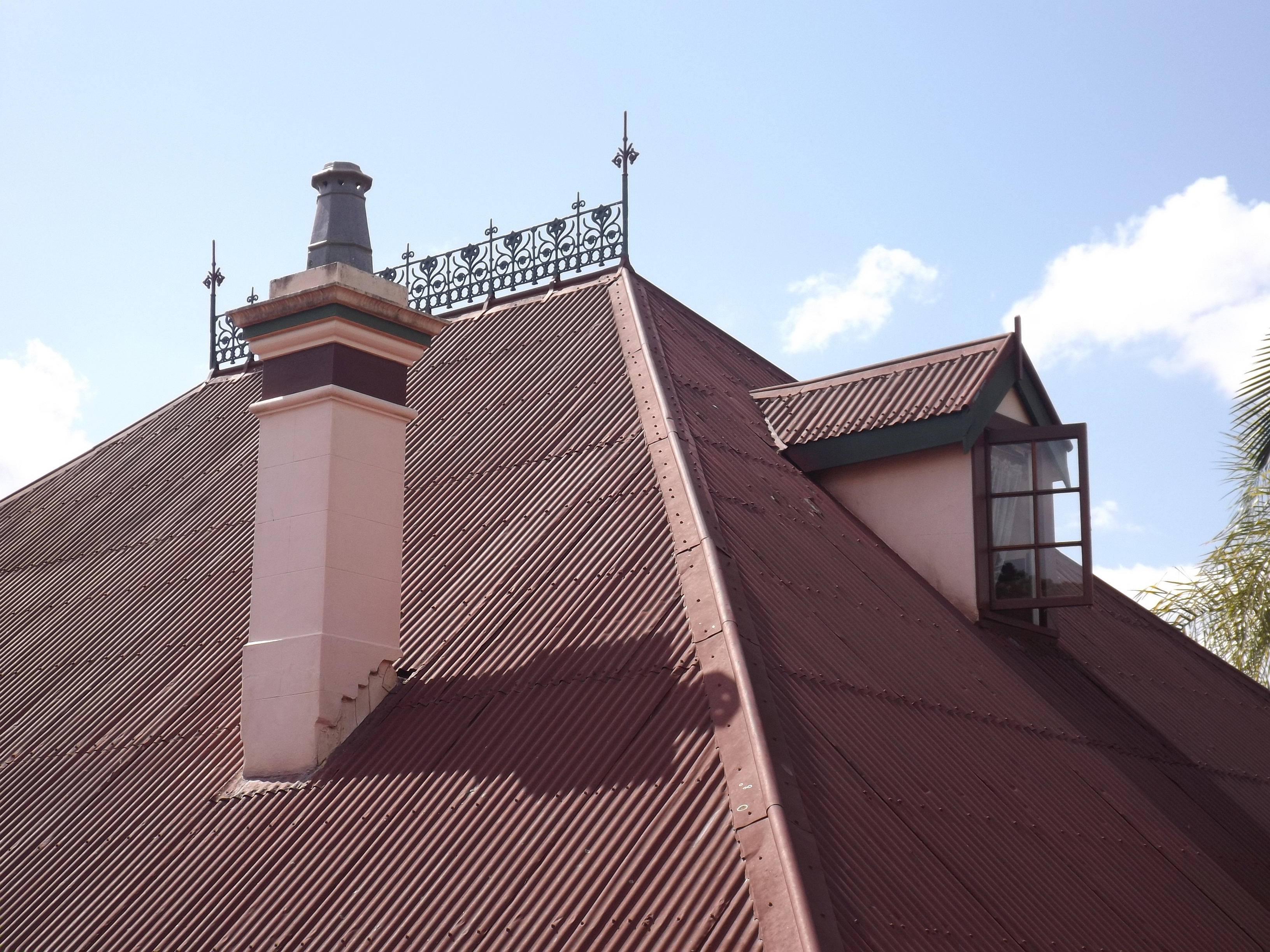 Photo of the rooftop of the Brickstone residence at Ipswich, Queensland, Australia.